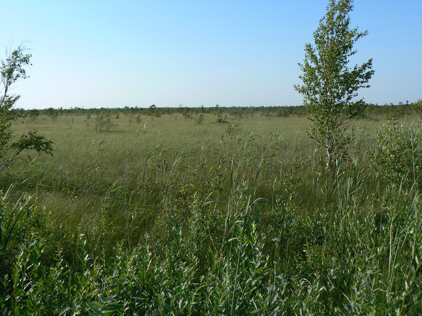 Tuhu swamp